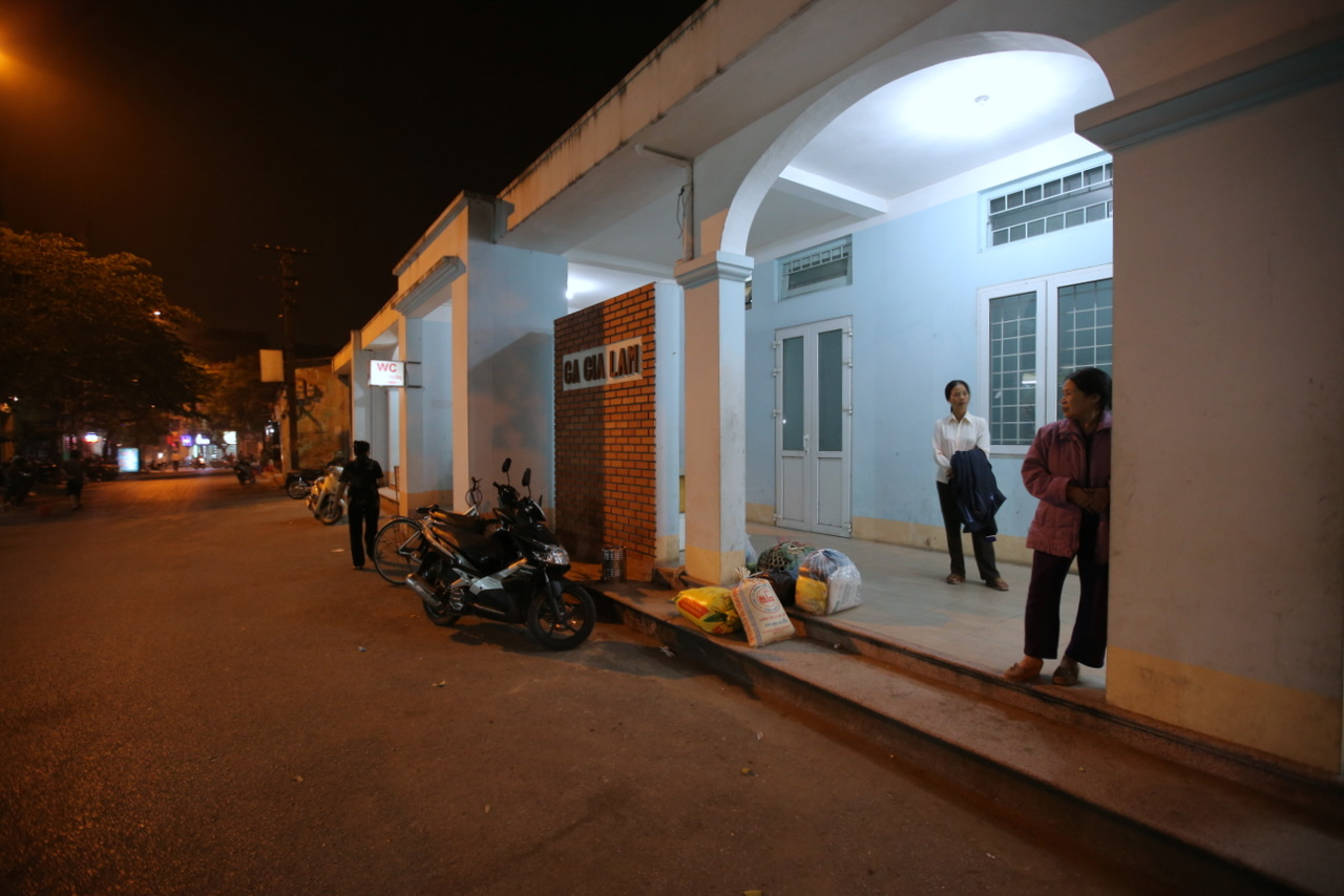 Gia Lâm Railway Station